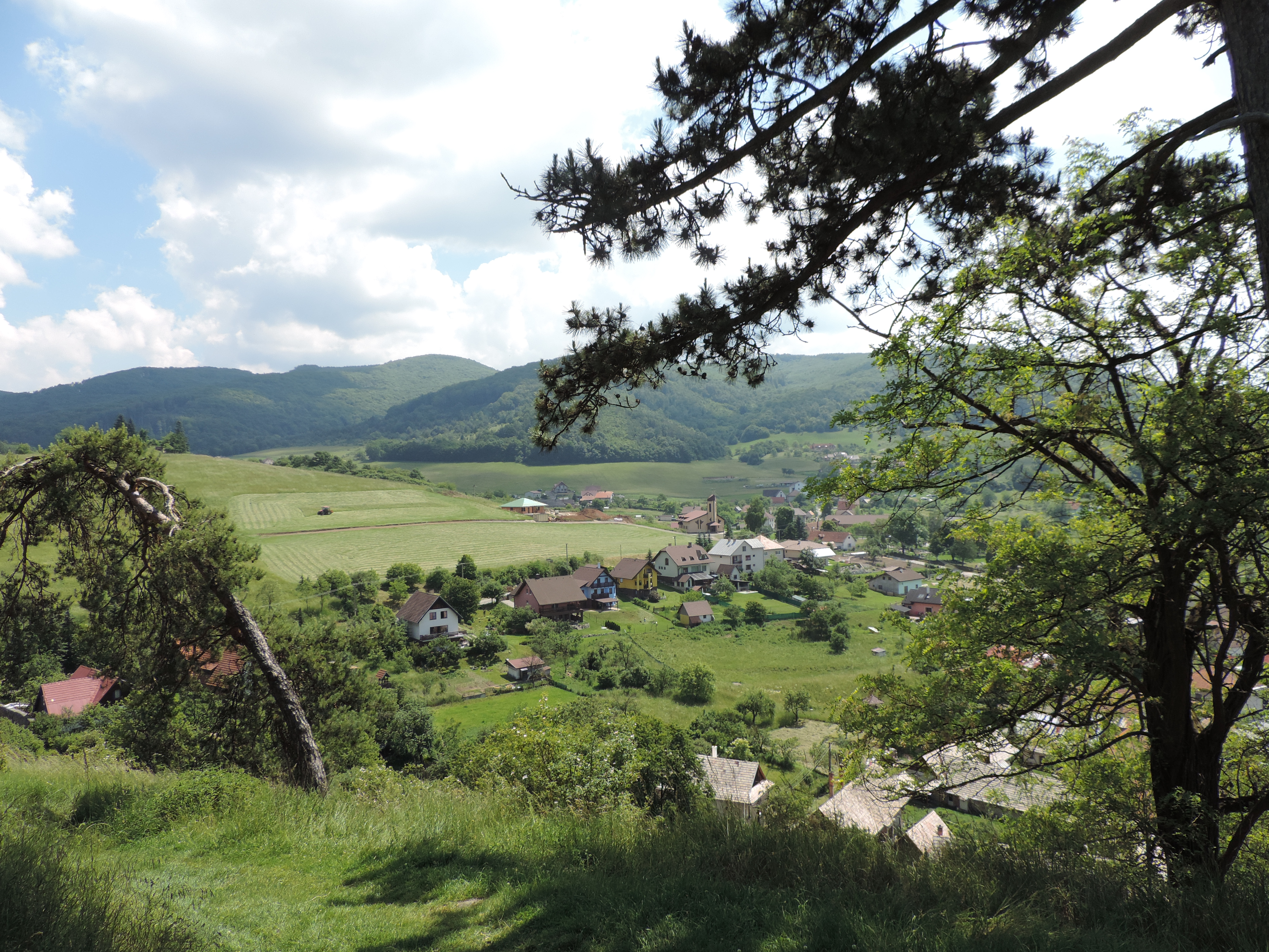 Overview of Podzámčok, Slovakia.